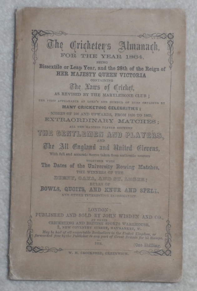 1864 Wisden Front Cover (owned by )